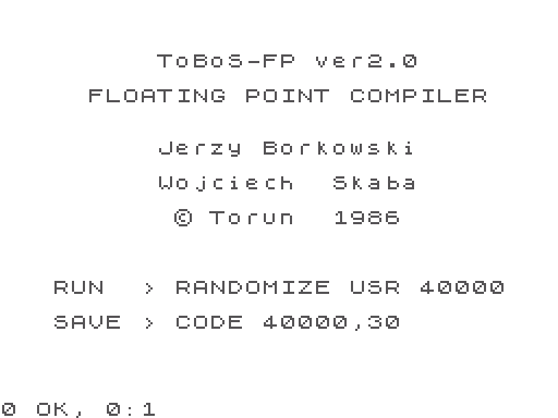 TOBOS-FP screen shot